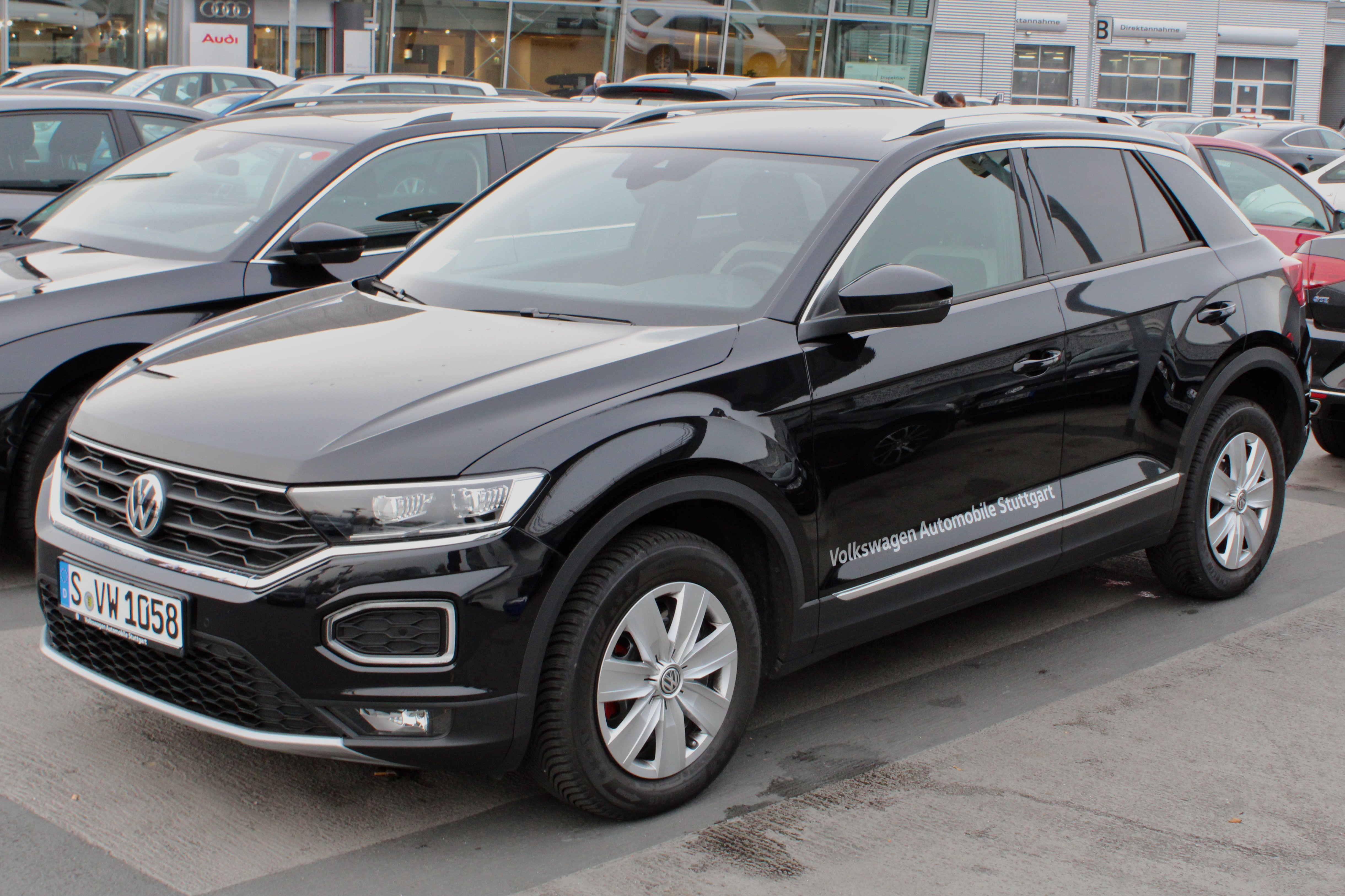 Volkswagen T-Roc in Stuttgart-Vaihingen